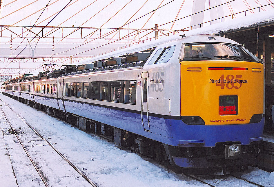 JR East 485-3000 series EMU on a "Hatsukari" limited express service at Aomori Station